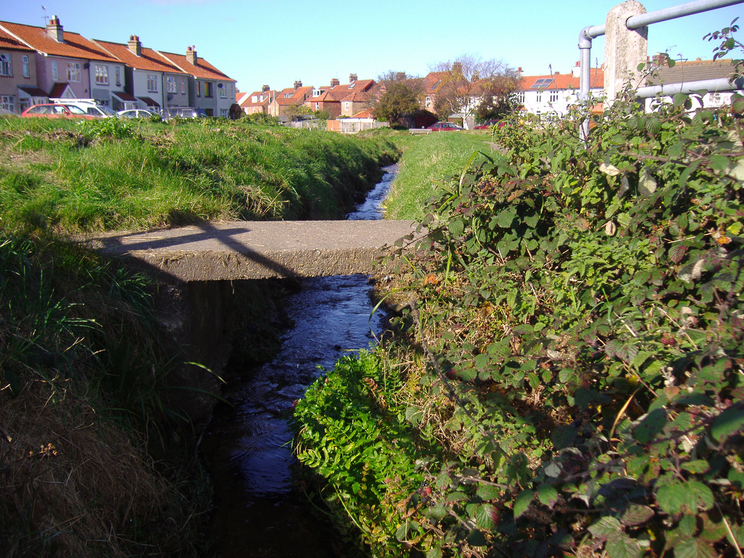 A Digital Photograph of Beeston Beck on Sheringham Back Common.